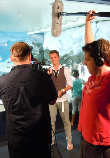 Chris Winter hosting a television show